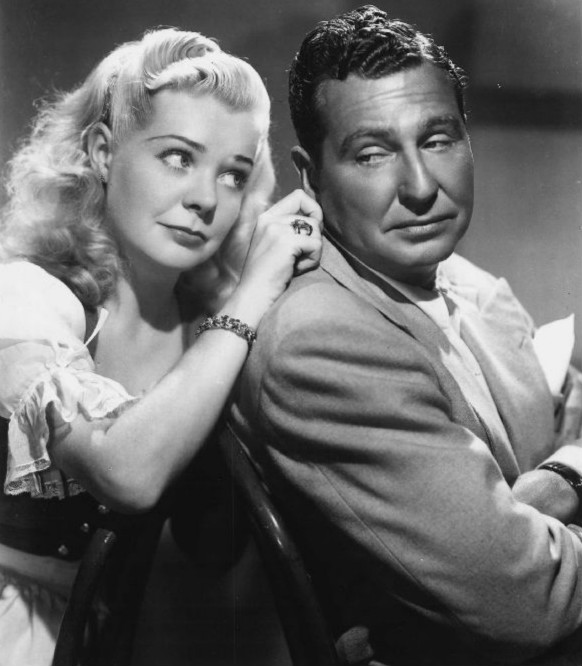 Photo of Alice Faye and Phil Harris.